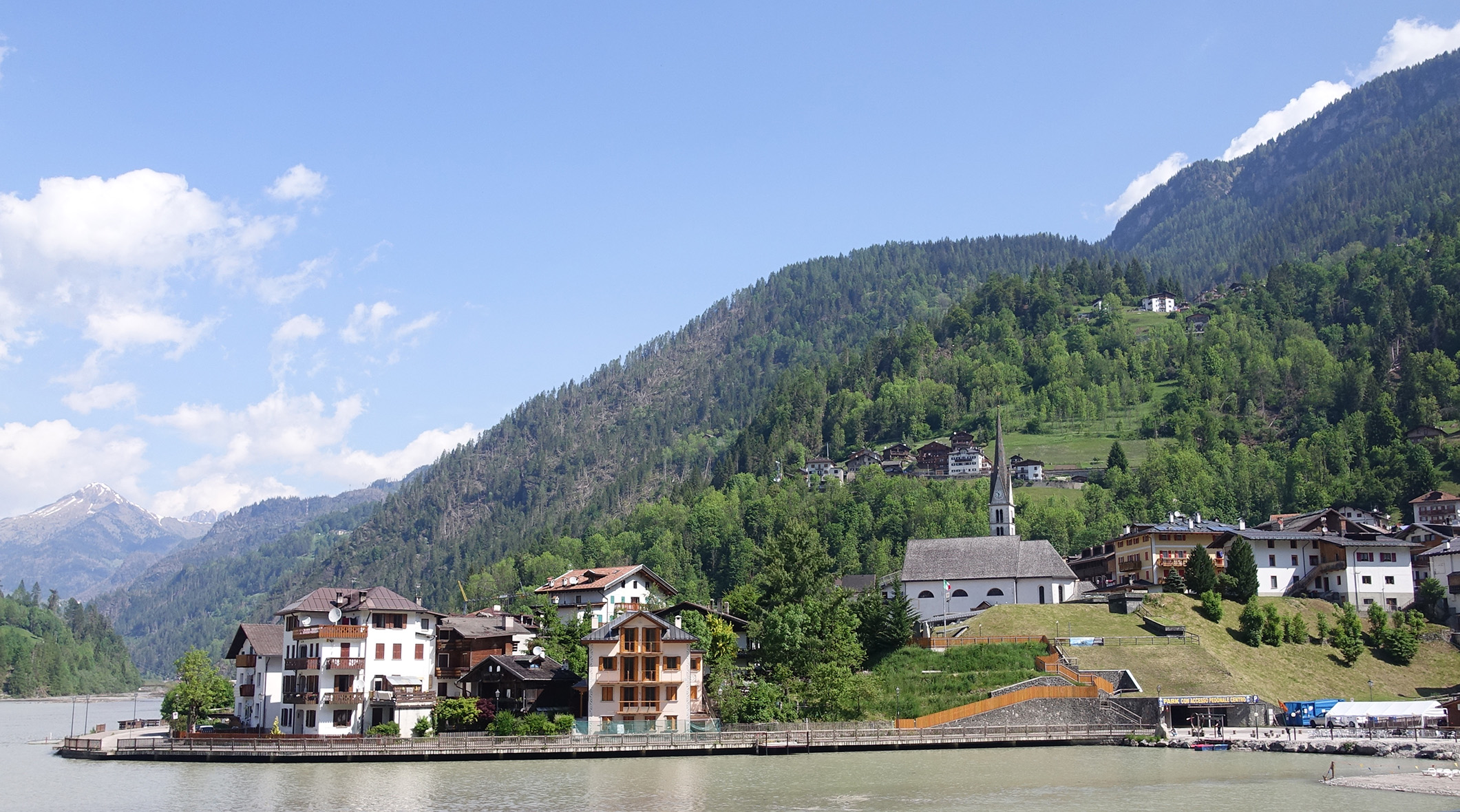 Alleghe, Italy.